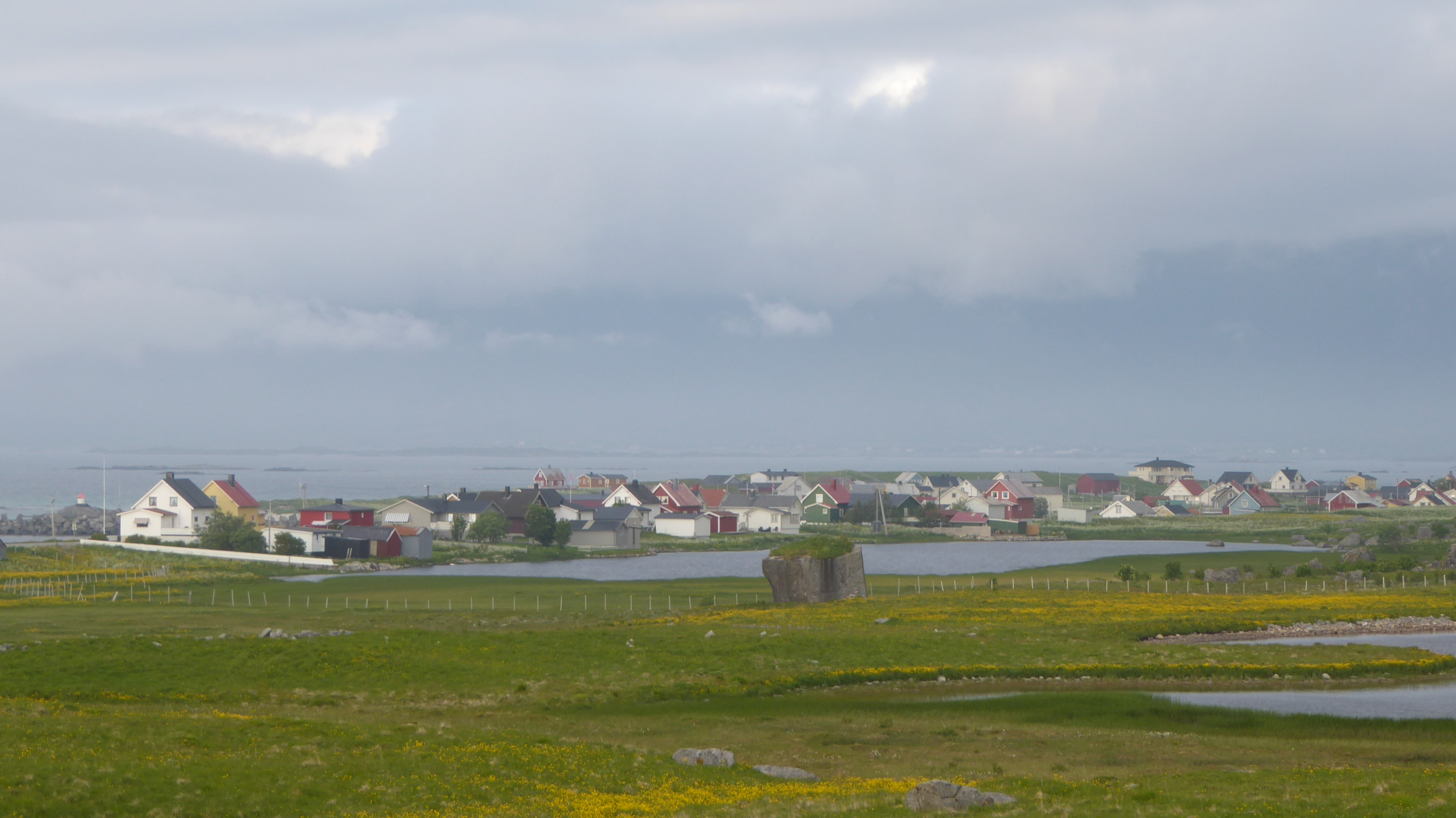 Eggum, on the north side of the Lofoten Islands in Norway